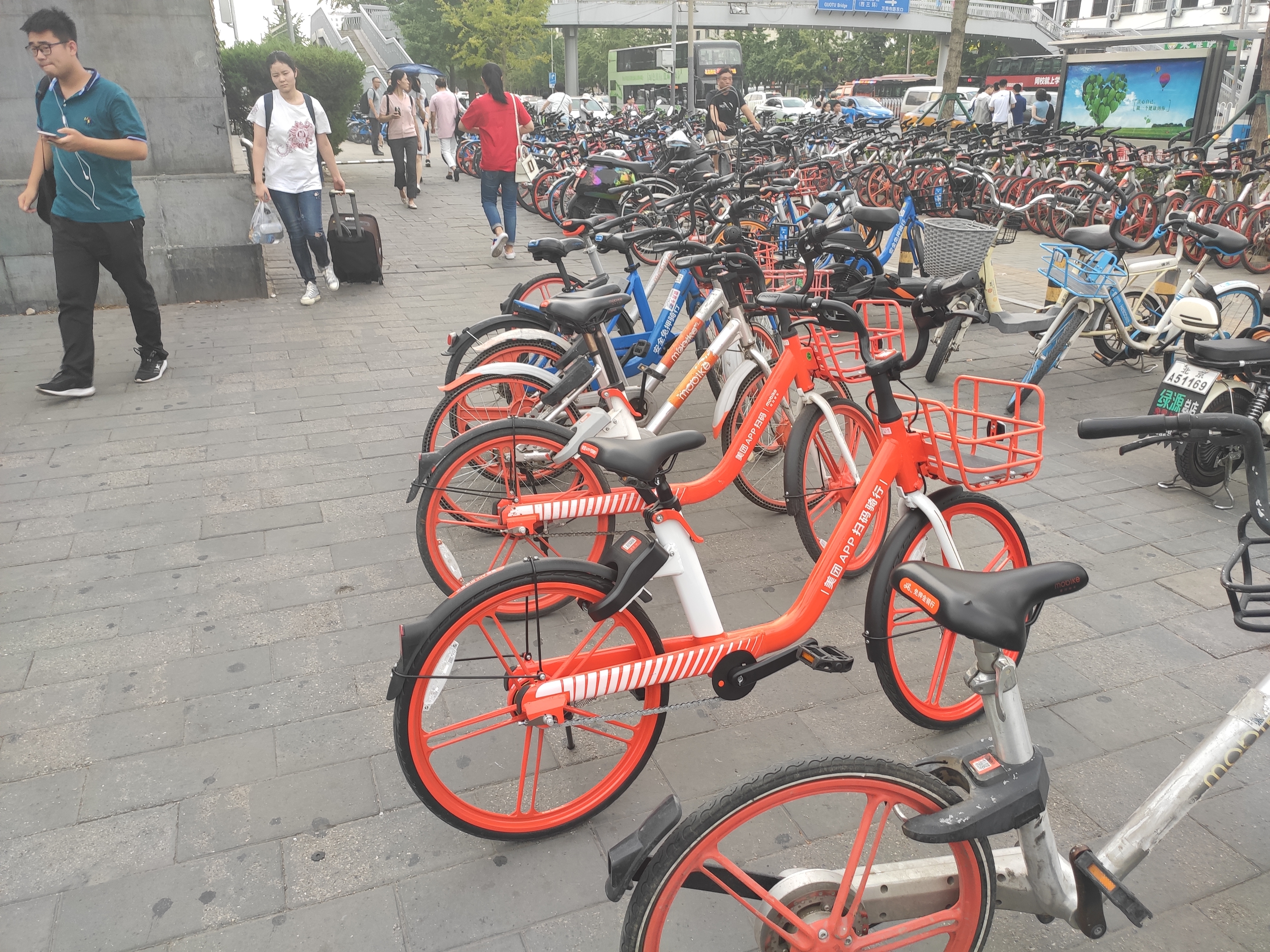 Farewell Mobike - Several different sharing bicycles from Meituan (formerly Mobike) showing the acqirement and rebranding of Mobike.